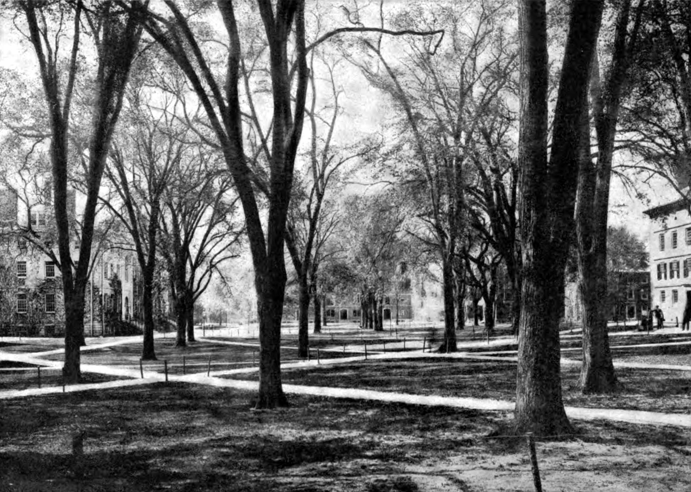 Photograph of Harvard Yard